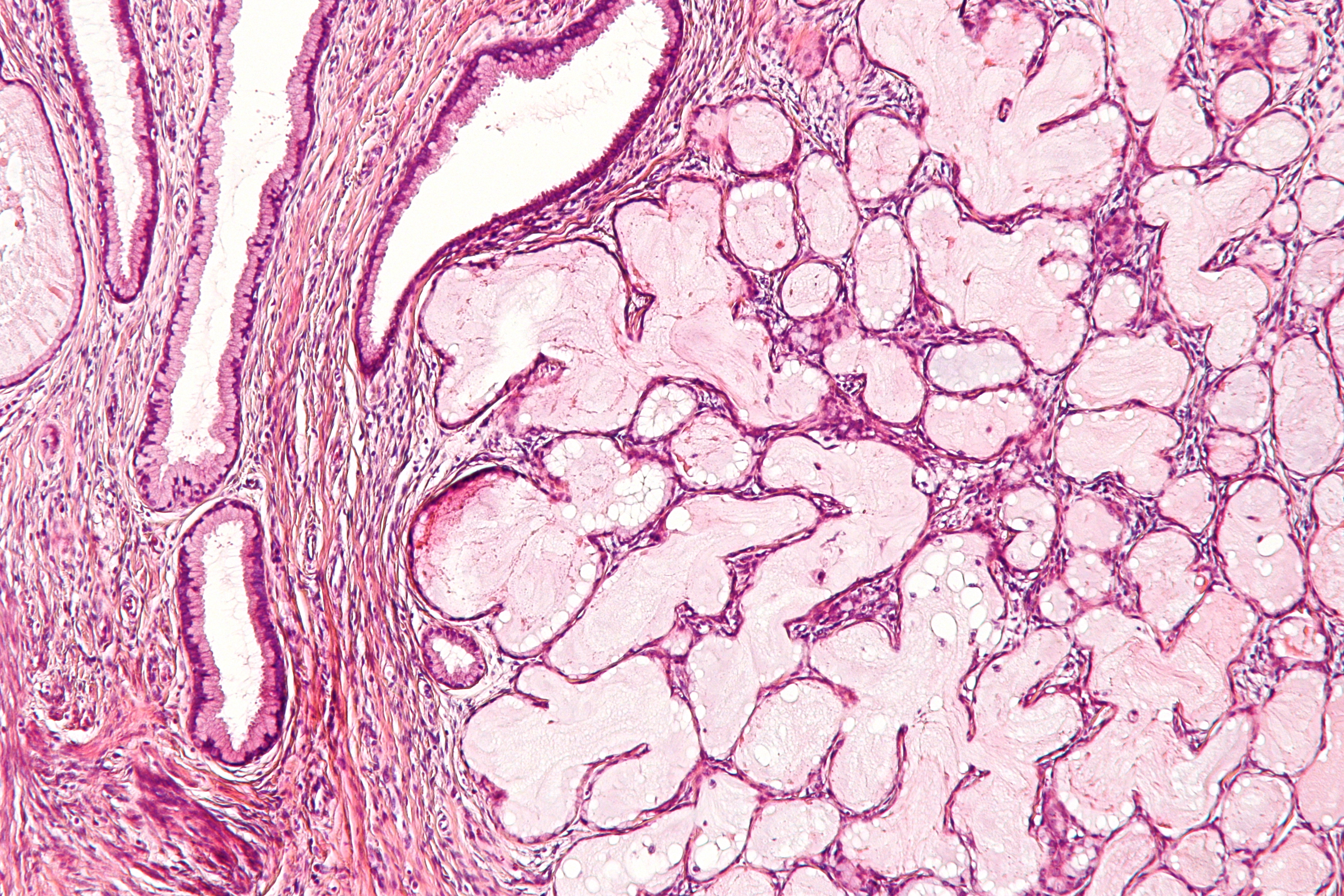 Intermediate magnification micrograph of a tunnel cluster of the cervix. H&E stain. This is a benign finding that is important only as it can be confused for something more onerous, i.e. cancer.[1] Related images Very low mag. Low mag. Intermed. mag. High mag. Very high mag. References ↑ (Oct 2002). "Symposium part III: tumor-like glandular lesions of the uterine cervix.". Int J Gynecol Pathol 21 (4): 347-59.